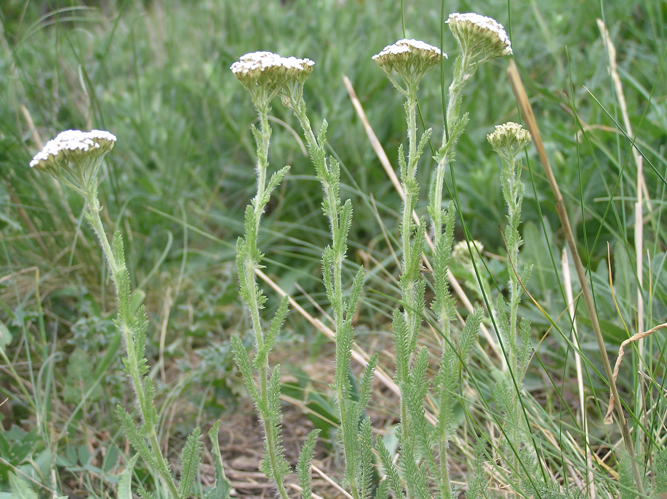 Achillea setacea, Brno-Chrlice, Southern Moravia, Czech Republic